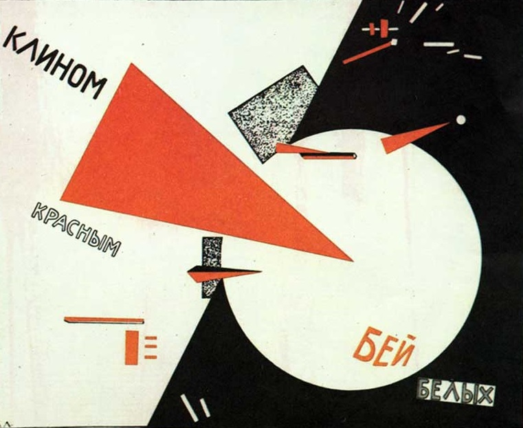 Beat the Whites with the Red Wedge